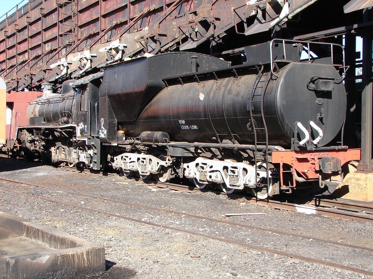 SAR Class 24 3654 (2-8-4) Builder's Number: NBL 26366 Location: Beaconsfield, Kimberley, Northern Cape